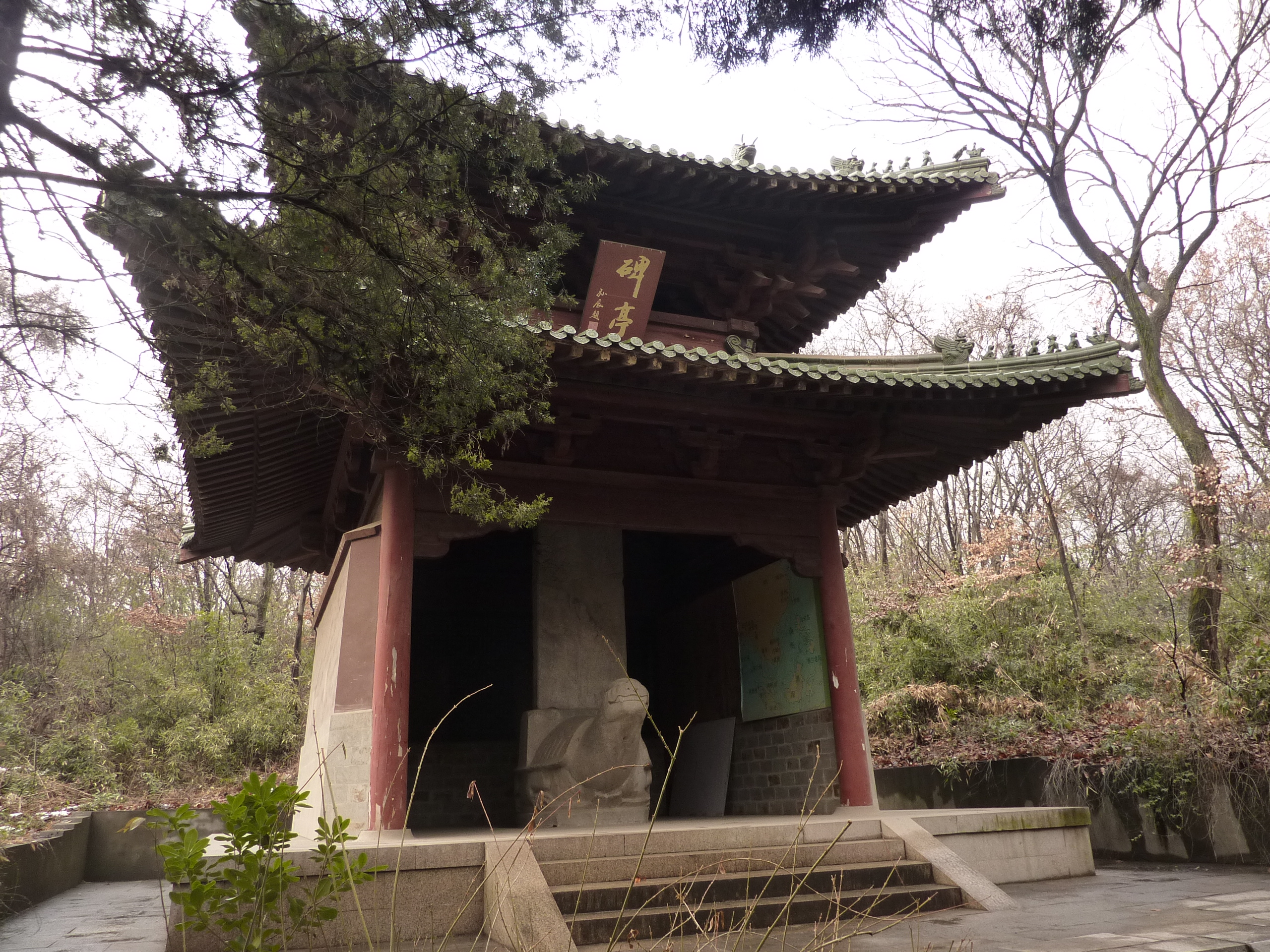 The restored stone tortoise (bixi) with a stele in memory of the Sultan of Brunei - the centerpiece of the Sultan of Brunei Tomb site in Nanjing. It sits in a restored stele pavilion, decorated with information boards about Brunei and Sino-Bruneian relations.